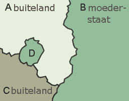 Afrikaans example of an exclave.